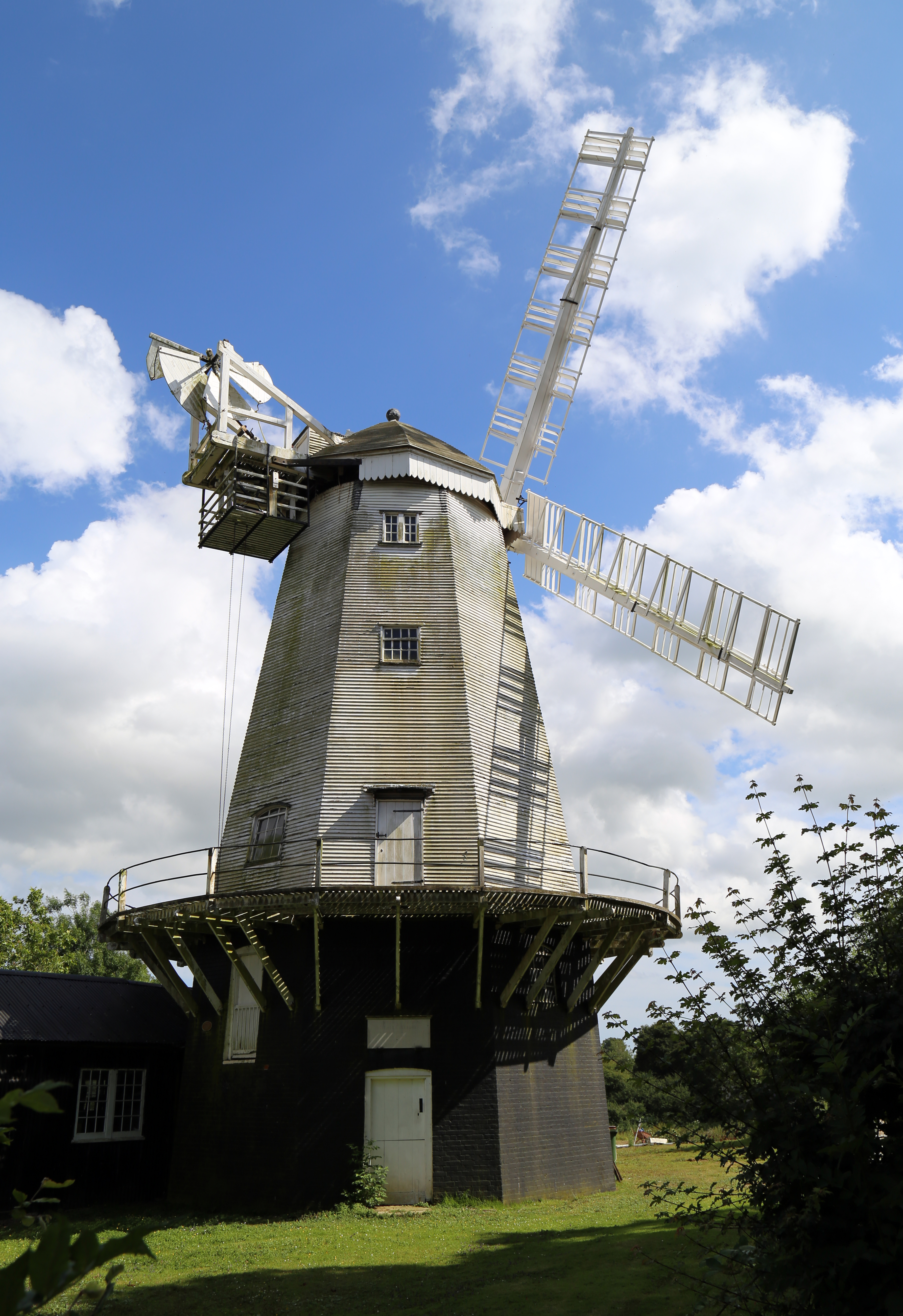 King's Mill, Grade II* listed 1870 smock windmill at Shipley, West Sussex, England. The mill was used for the TV series Jonathan Creek as the protagonist's initial home.